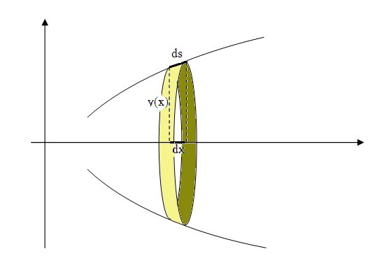 Illustration of basic idea of surface integral of revolution